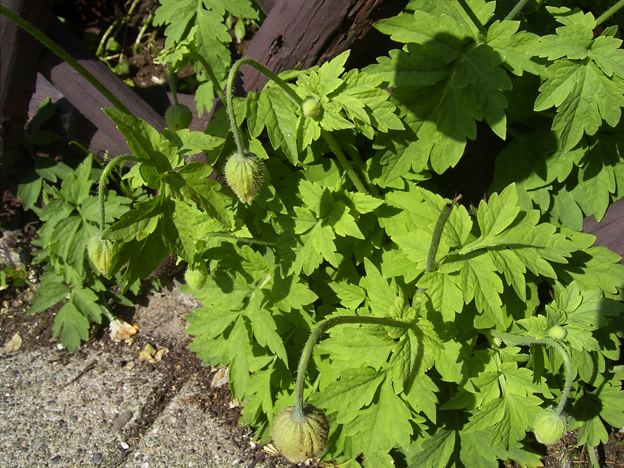 This photo shows a bud of Meconopsis cambrica